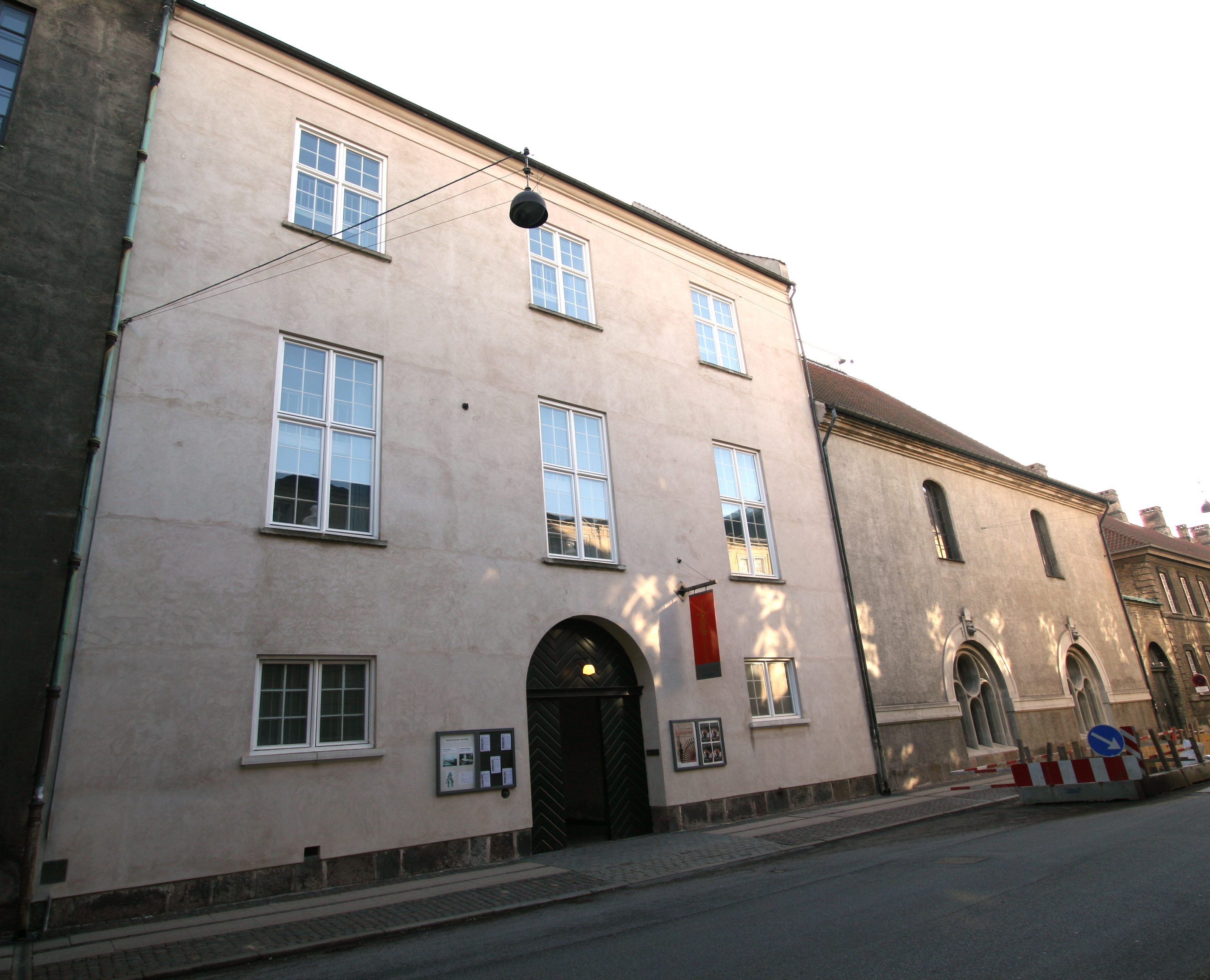 Tøjhusmuseet, The Royal Danish Arsenal Museum in Copenhagen. Front. Facade mod Tøjhusgade.